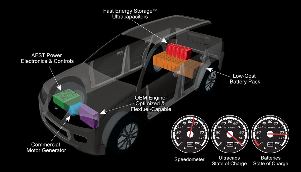 A 3D cutaway image of AFS Trinity's XH-150 plug-in hybrid electric car including speedometer, ultracapacitor and battery state-of-charge gauges.